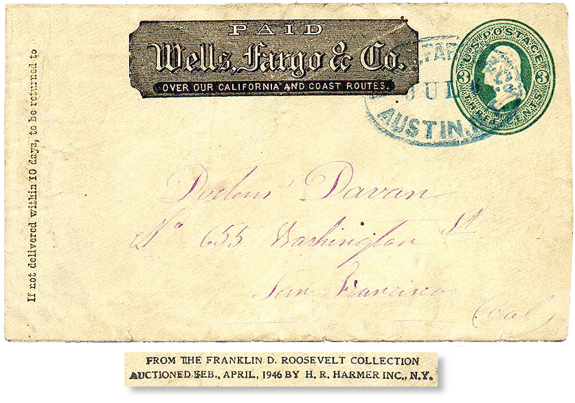 Wells Fargo & Co. franked cover on cream 3-cent U.S. Postal Stationary (U84) hand postmarked (WF&Co green oval date stamp) "Wells Fargo & Co Austin, N.T. July 6" from Austin, Nevada Territory, to San Francisco, Cal. July 6, 1870. Backstamped: "From the Franklin D. Rossevelt Collection Auctioned Feb, April, 1946 by H.R. Harmer Inc, N.Y." Scanning, digital reconstruction, and restoration by (uploader) Licensing Stamp Image